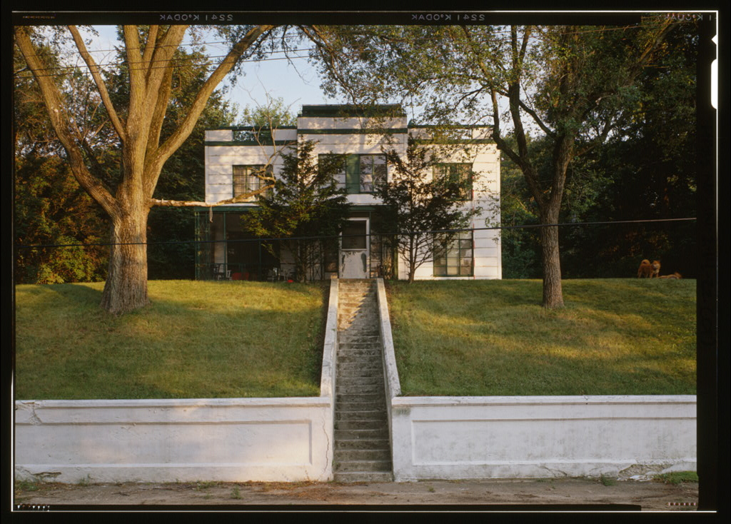 Armco-Ferro-Mayflower House (Century of Progress, 1933 Chicago Fair)